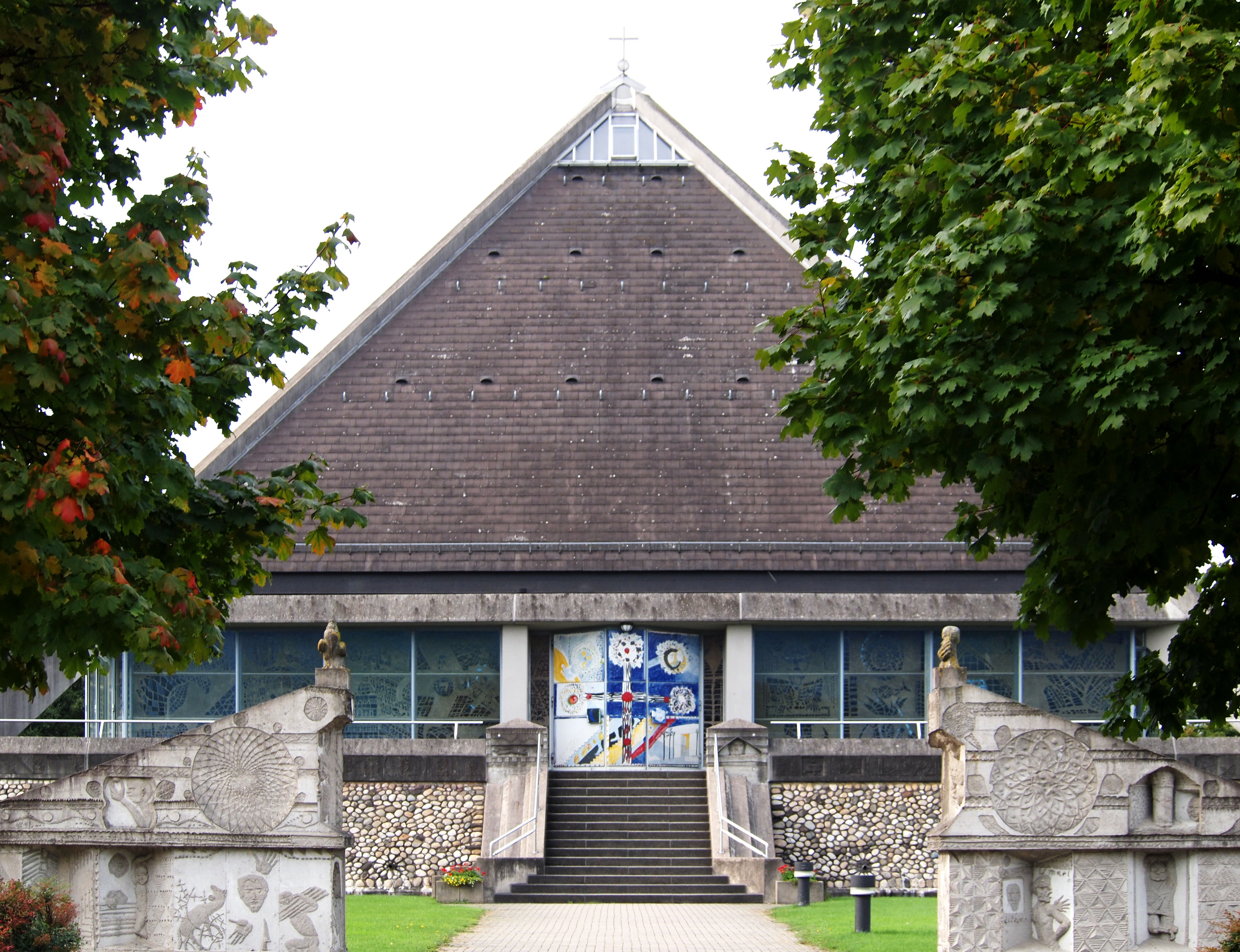 Road church Baden-Baden, main approach through acer avenue and Abraham's gate